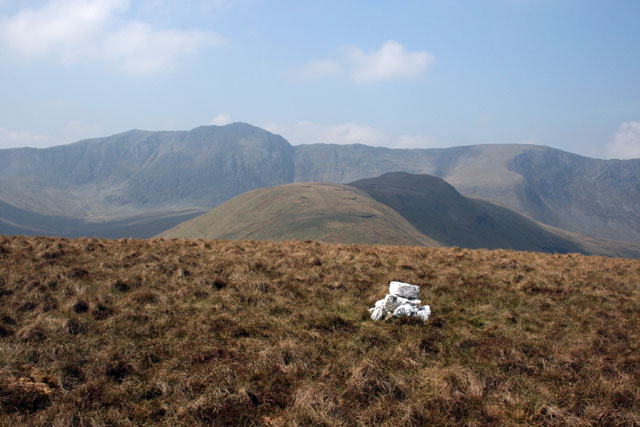 Llechwedd Du The summit cairn on Llechwedd Du with Aran Fawddwy in the background